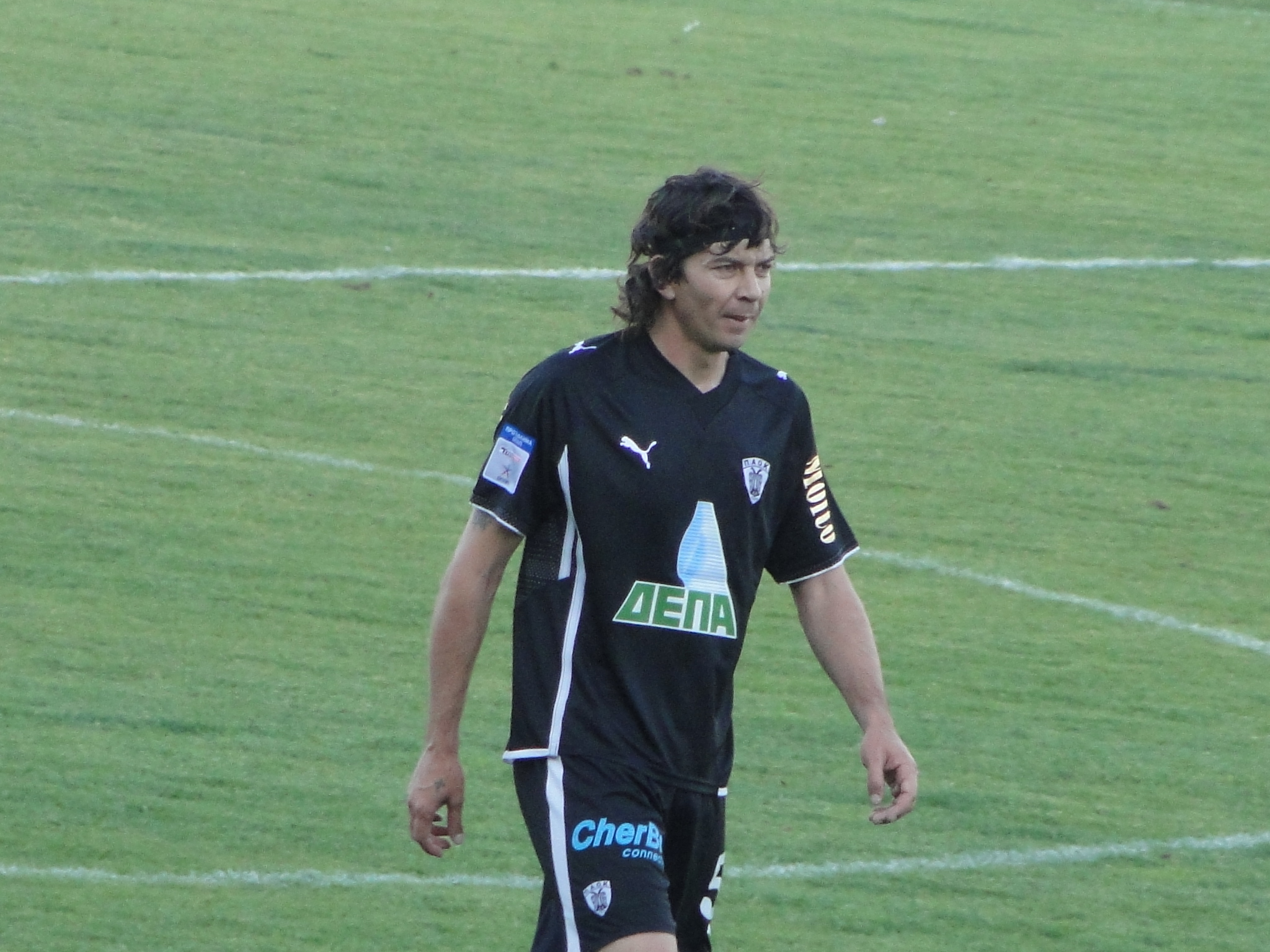 Pablo Garcia, 2010, PAOK vs Olympiakos.